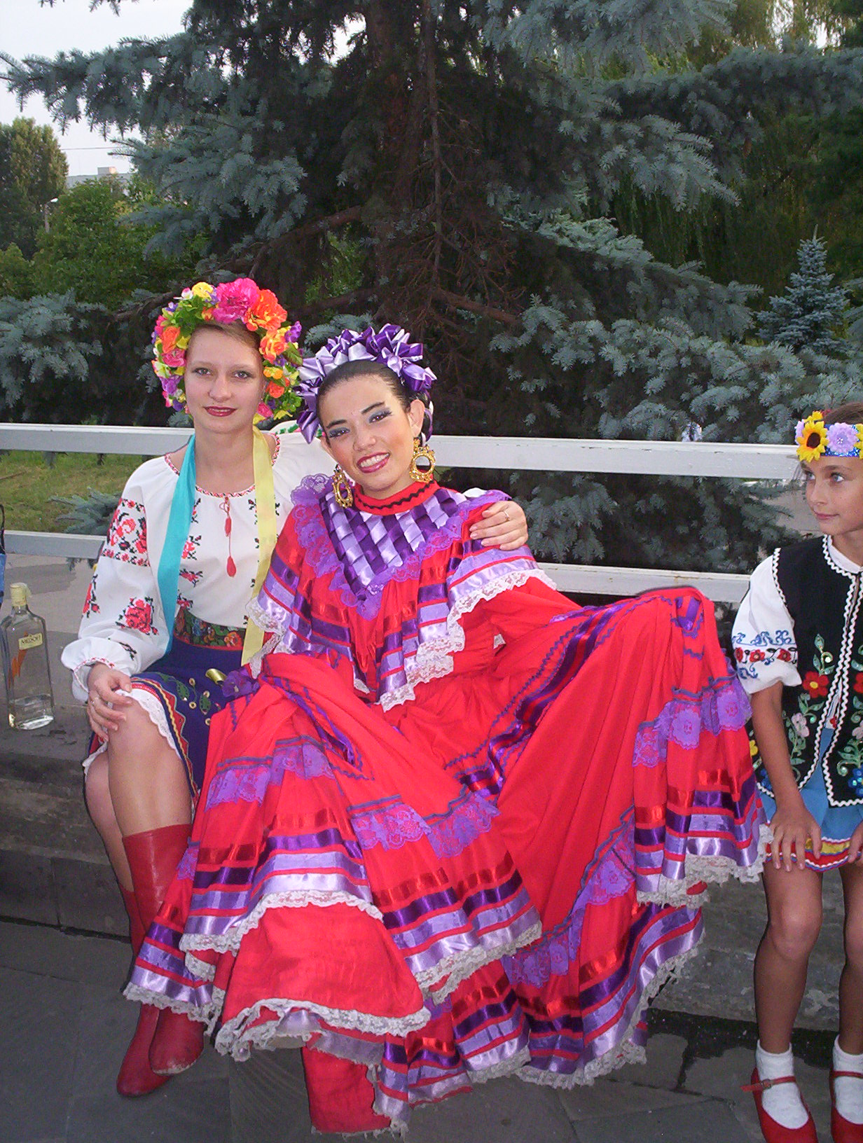 Festival 2005